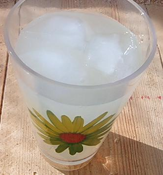 A glass of lemonade